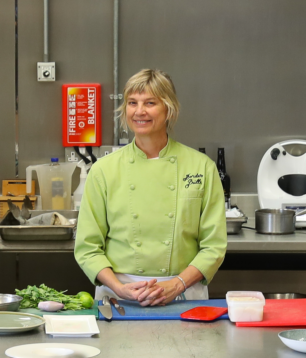 Mary Sue Milliken Visits University of West London